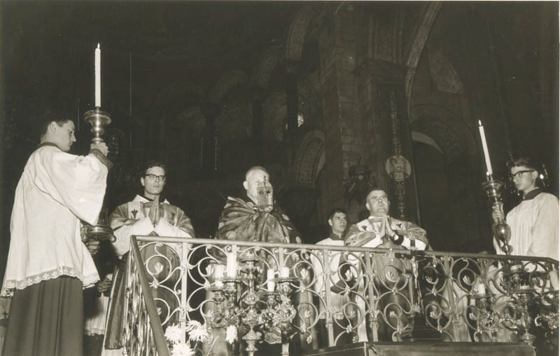 View of the chancel of the Basilica of Our Lady in Maastricht, Netherlands, during the presentation of the relics as part of the 1962 Pilgrimage of the Relics (Heiligdomsvaart). The priest in the centre is presenting the reliquary with relics of the True Cross, a gift from the Vatican. Photo: Municipal Archives Maastricht (GAM 25211), part of RHCL collections.